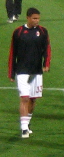 Thiago Silva before Palermo-Milan, Serie A 2009-2010